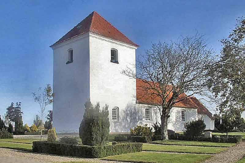 Gærum Kirke, church close to Frederikshavn, Denmark